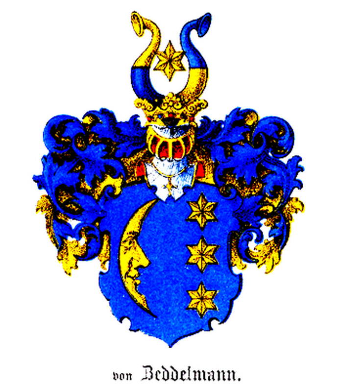 Coat of Arms of Zeddelmann family